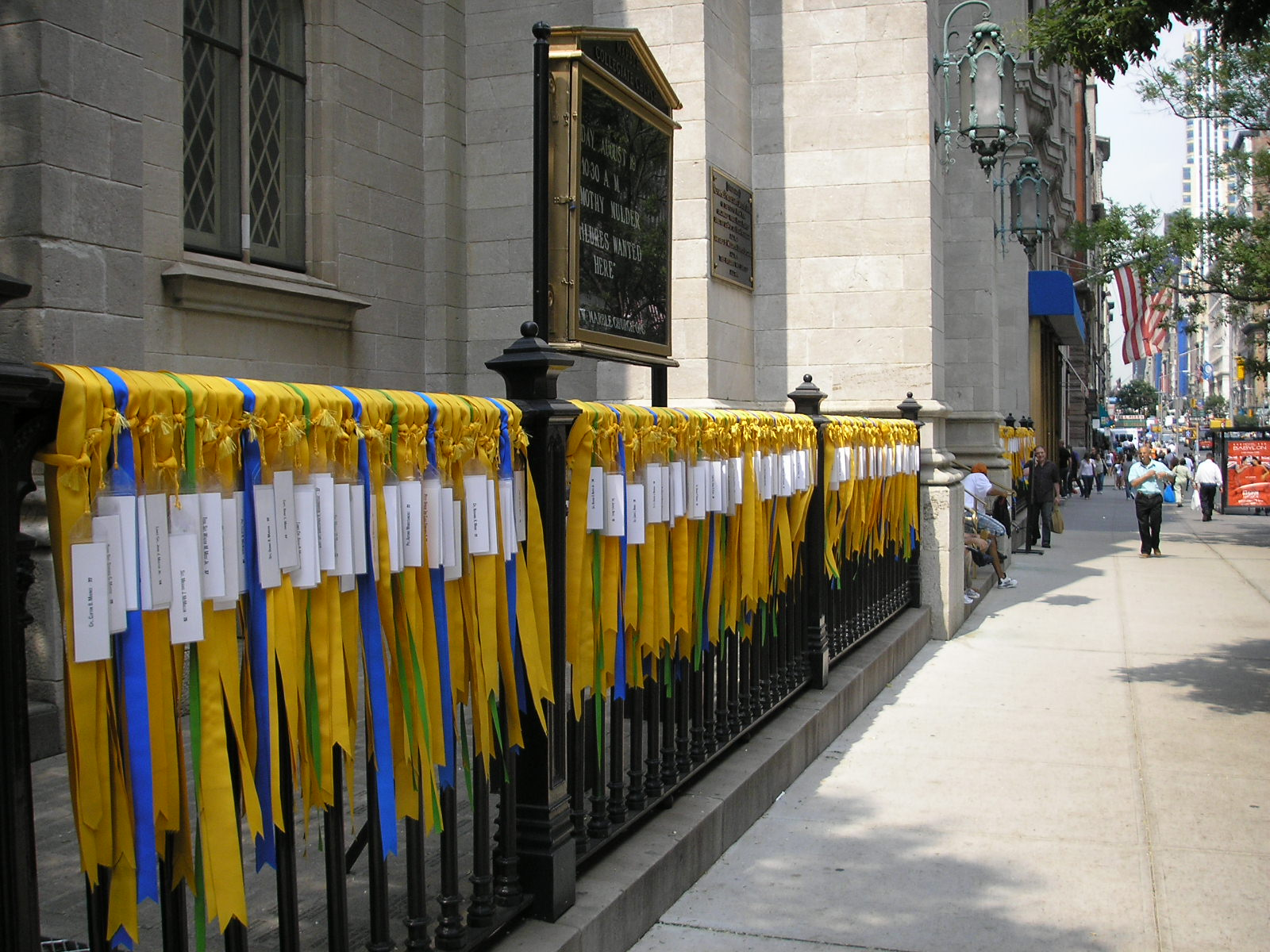 Ribbons of prayer for the victims of the Iraq War at the Marble Collegiate Church on 5th Avenue and 29th Street in New York City.